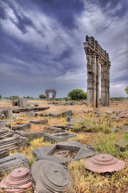 Kakatiya Kala Thoranam or more popularly known "Oorugallu Gate" (Warangal Gate) and Ruins around